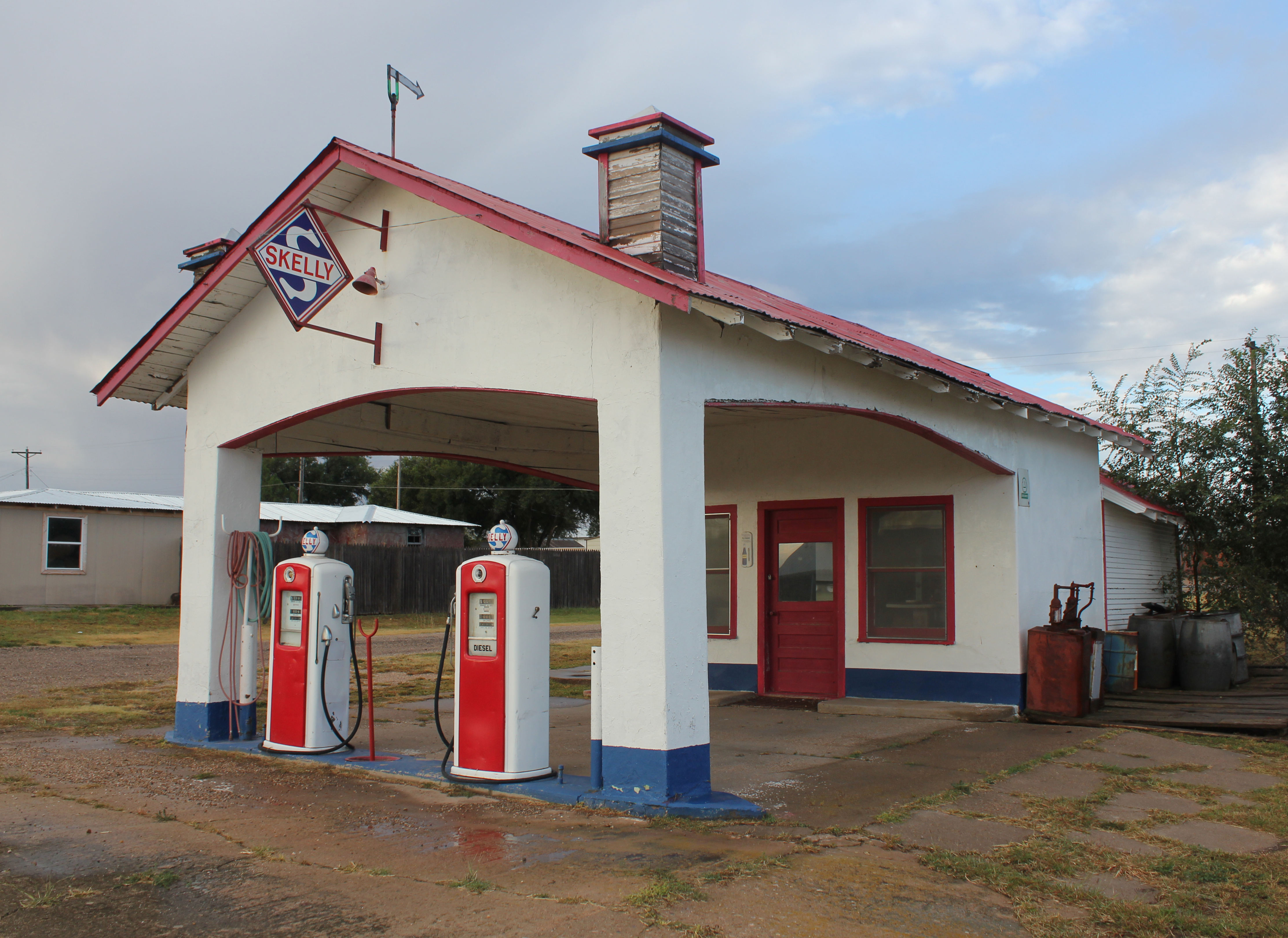 A restored Skelly gas station in Skellytown, Texas. It is located on Main Street, near the intersection with 3rd Street.